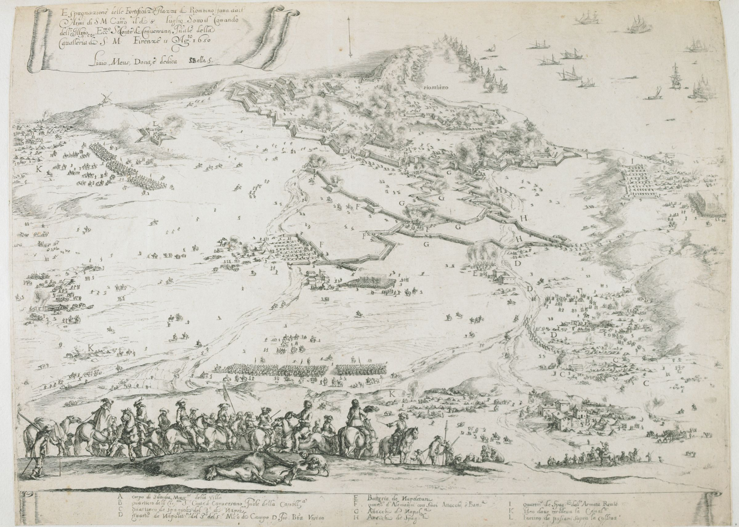 The Siege of Piombino in 1650. During the summer, the Spanish and Neapolitan armies captured Piombino and another Tuscan Presidios (or State of the Presidi) held by the French. France was then going through a series of debilitating civil wars known as La Fronde. Print (etching) c. 1650.